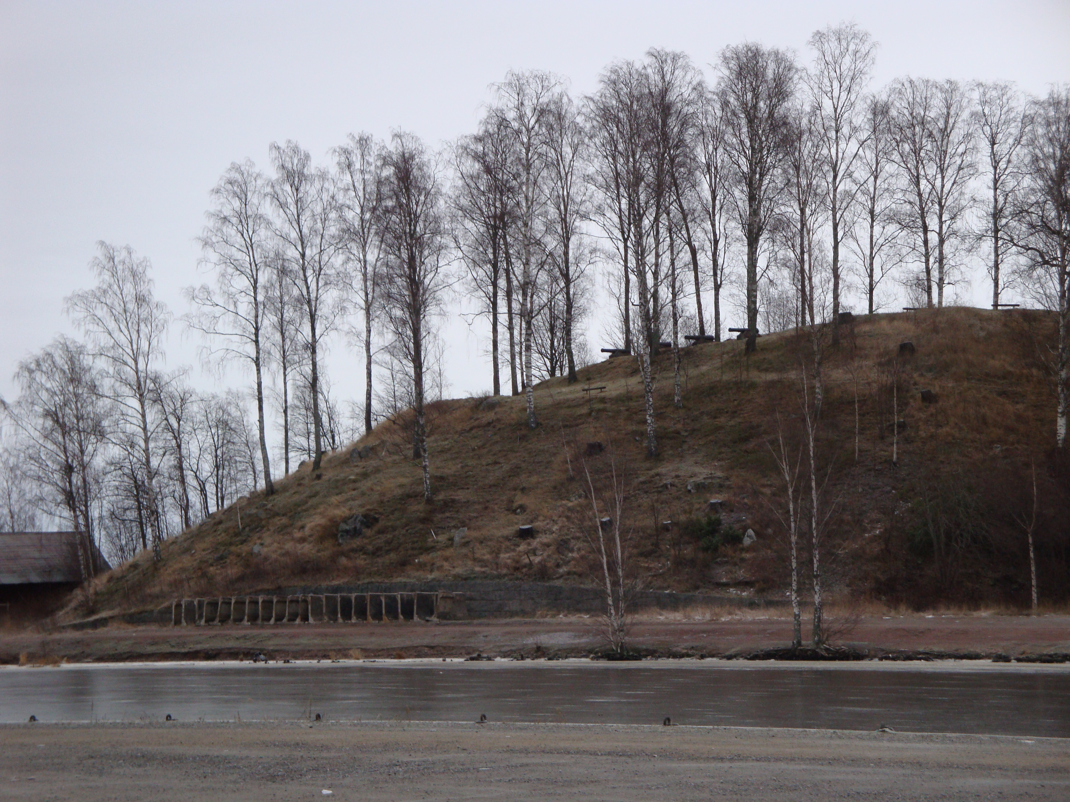 The Faxeholm hill in the city of Söderhamn (province of Hälsingland, Sweden), the remains of the medieval fortress with the same name.